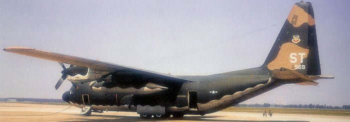 C-130E #69-6569 of the 61st Tactical Airlift Squadron, Sewart Air Force Base TN.